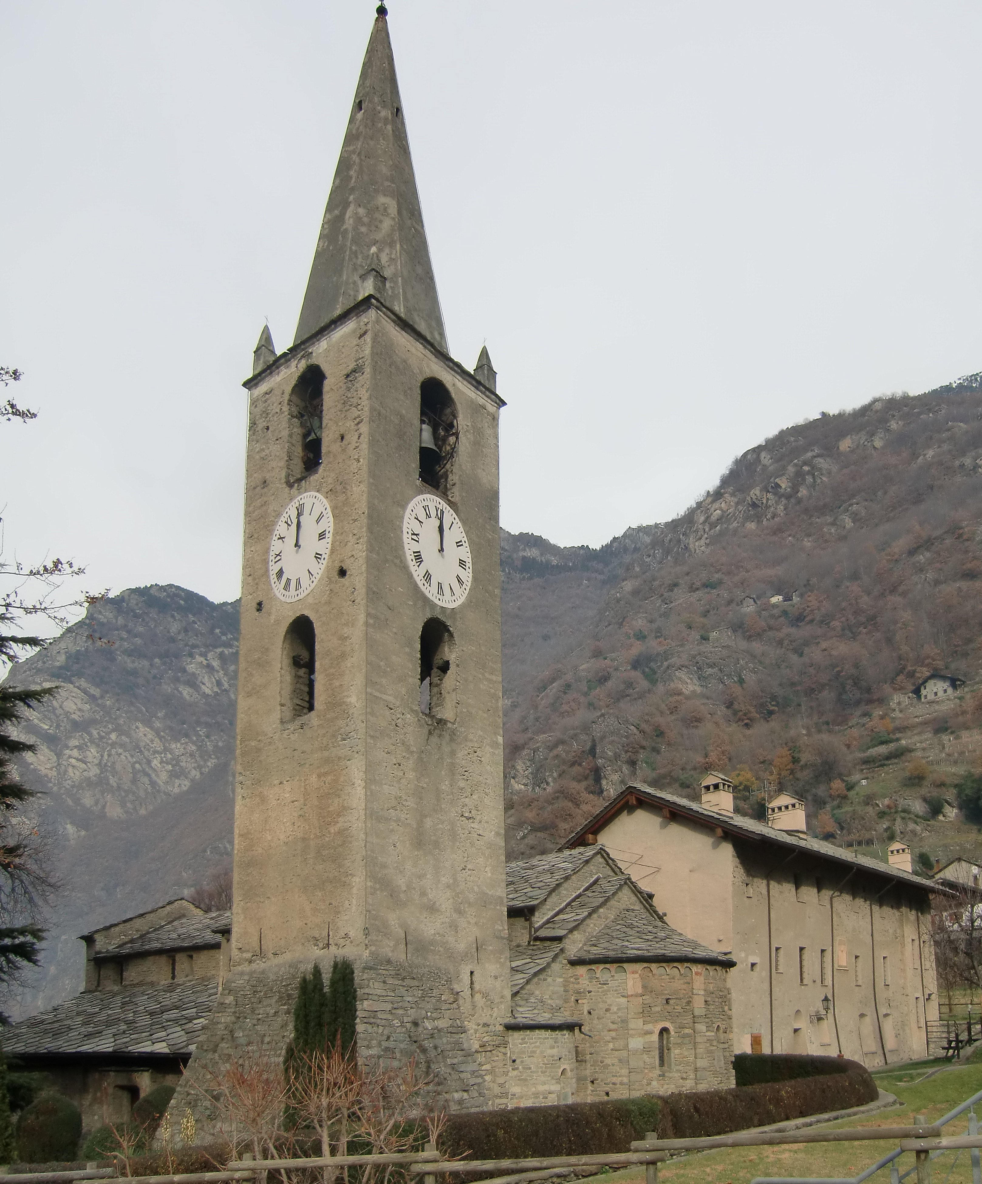 Arnad (Aosta Valley), church of San Martino, the bell-tower (XVII century}